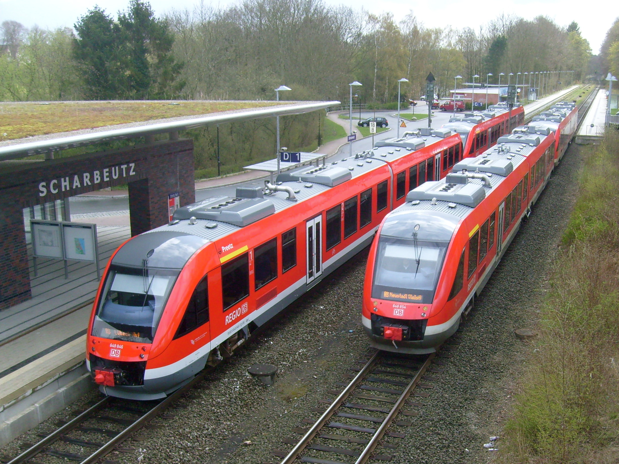 The new Scharbeutz Station in Schleswig-Holstein, Northern Germany.